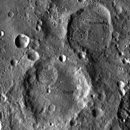 LROC image of Guyot crater